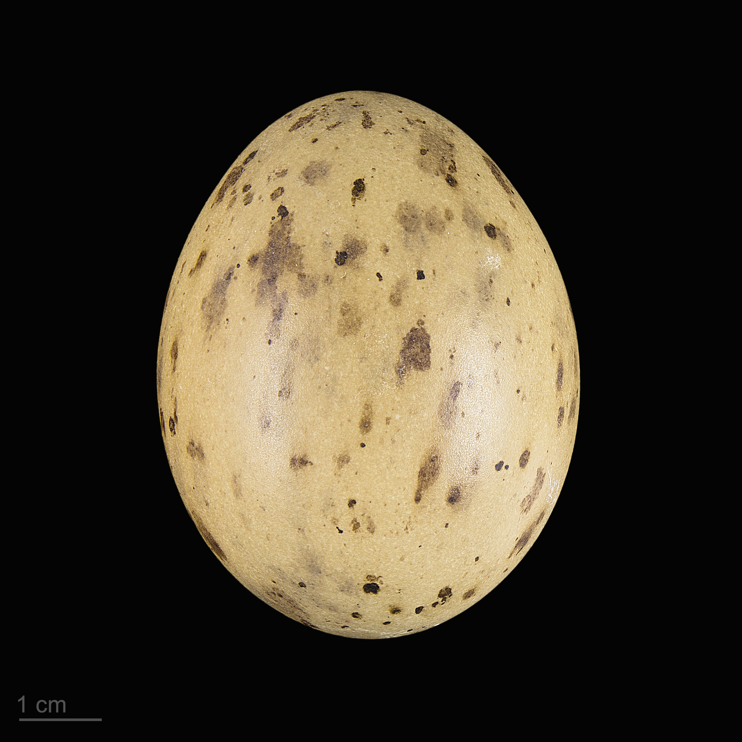 Eggs of houbara bustard collection of Jacques Perrin de Brichambaut.